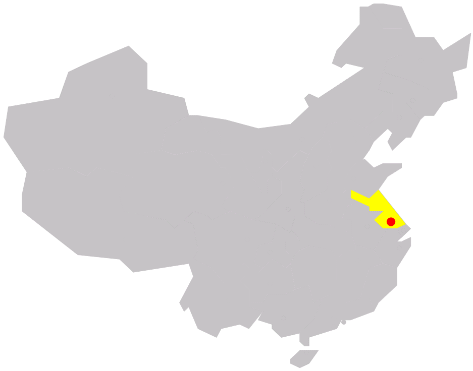 position of Wuxi in China